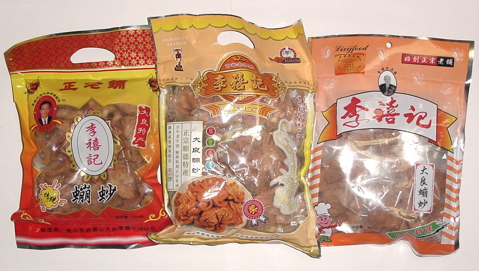 Baangsa made and packaged by different manufacturers in Daliang Town